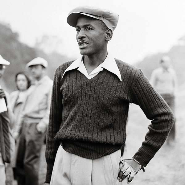 Professional golfer Bill Spiller participating at a golf tournament c. 1950.